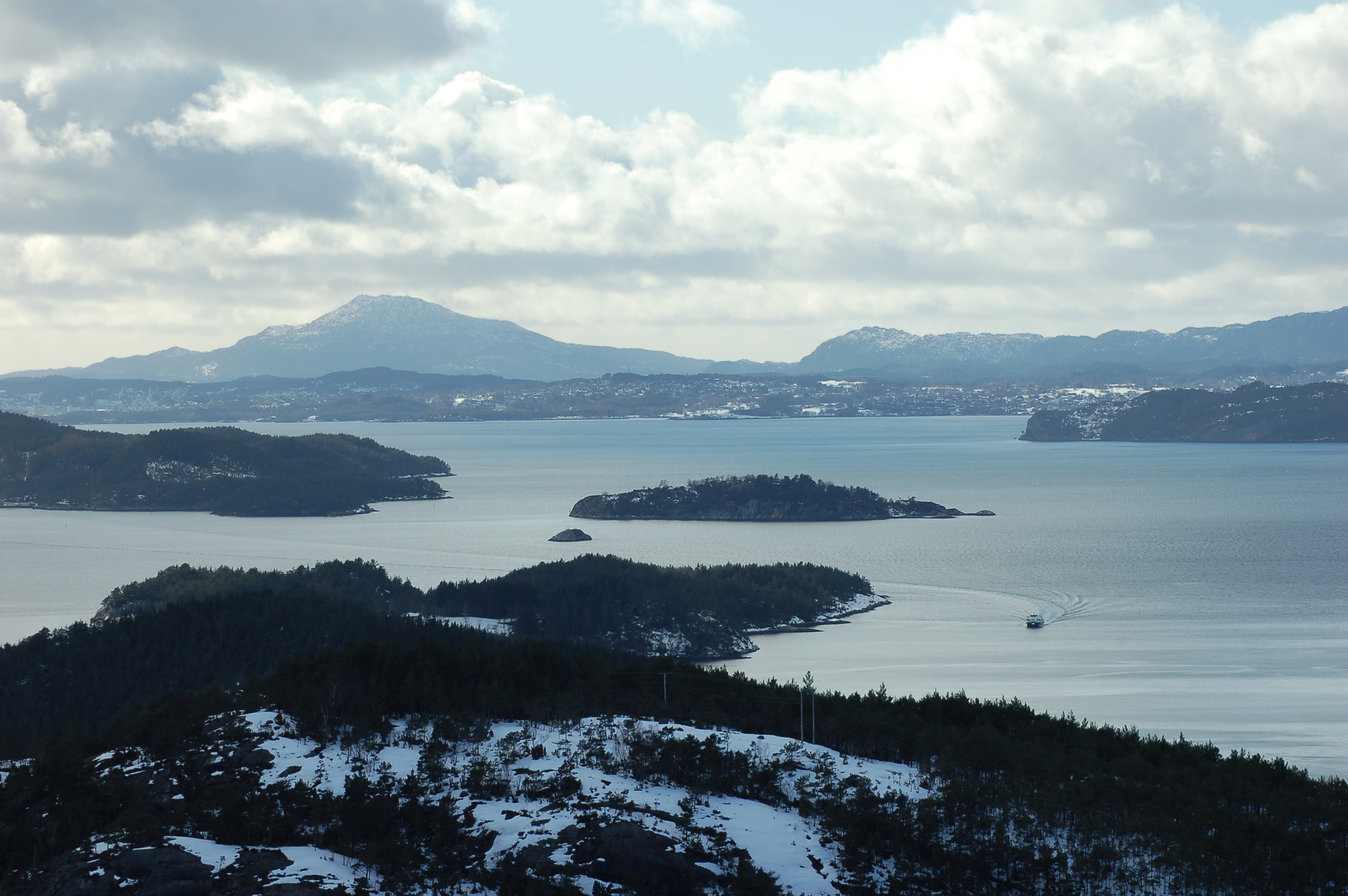 Shows the fjordlandscape of Sunnhordland in Norway seen from Vikefjell at 5450 Sunde. The Hardanger fjord with Stord in the background. To the right a part of Huglo, to the left a part of Halsnøy. The distant mountain is Siggjo at Bømlo.